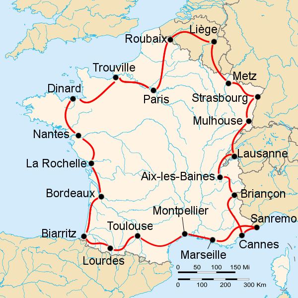 Route of the 1948 Tour de France, starting and finishing in Paris. The black dots are the cities that hosted a stage start and finish.